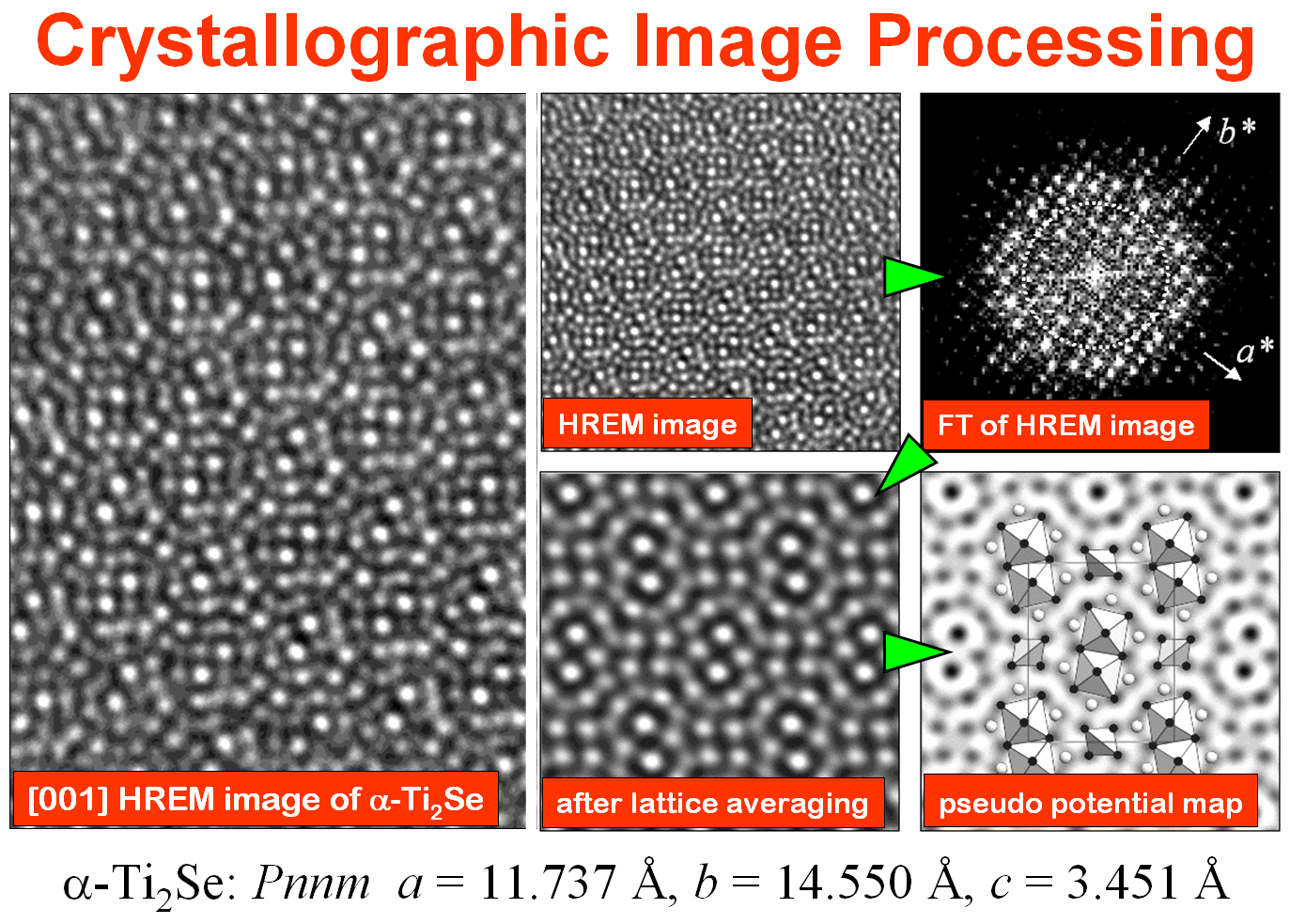 Crystalographic image processing (CIP) of alpha-Ti2Se. Ref.: T. E. Weirich, From Fourier series towards crystal structures - a survey of conventional methods for solving the phase problem; in: Electron Crystallography - Novel Approaches for Structure Determination of Nanosized Materials, T. E. Weirich, J. L. Lábár, X. Zou, (Eds.), Springer 2006, 235 - 257.